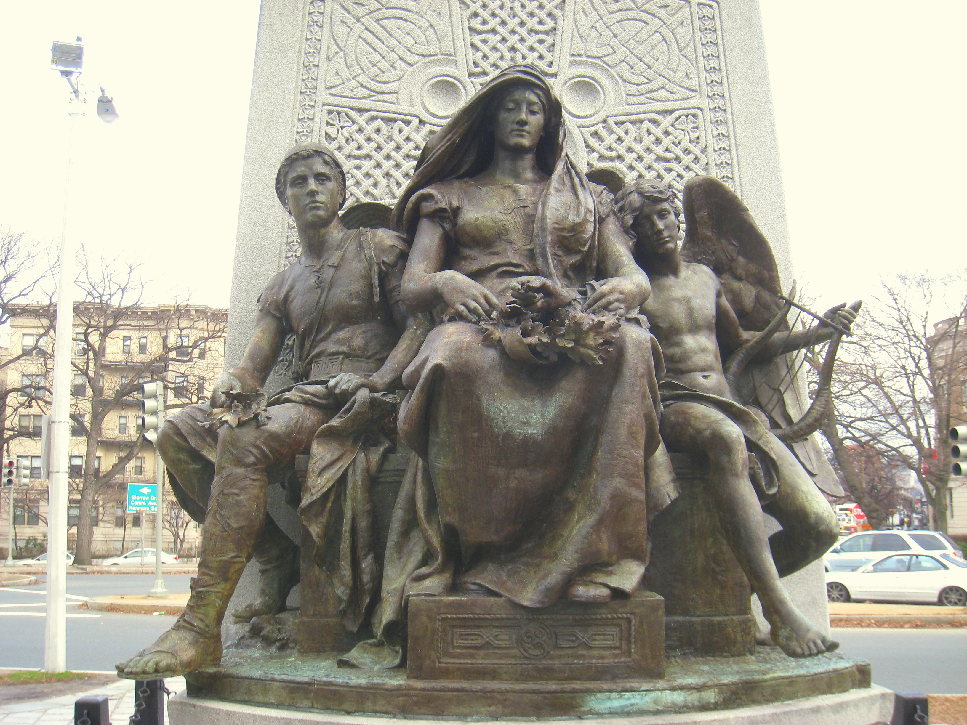 John Boyle O'Reilly Memorial by Daniel Chester French (1850–1931), located on the Fenway, Boston, Massachusetts, USA. Sculpture dedicated in 1896.